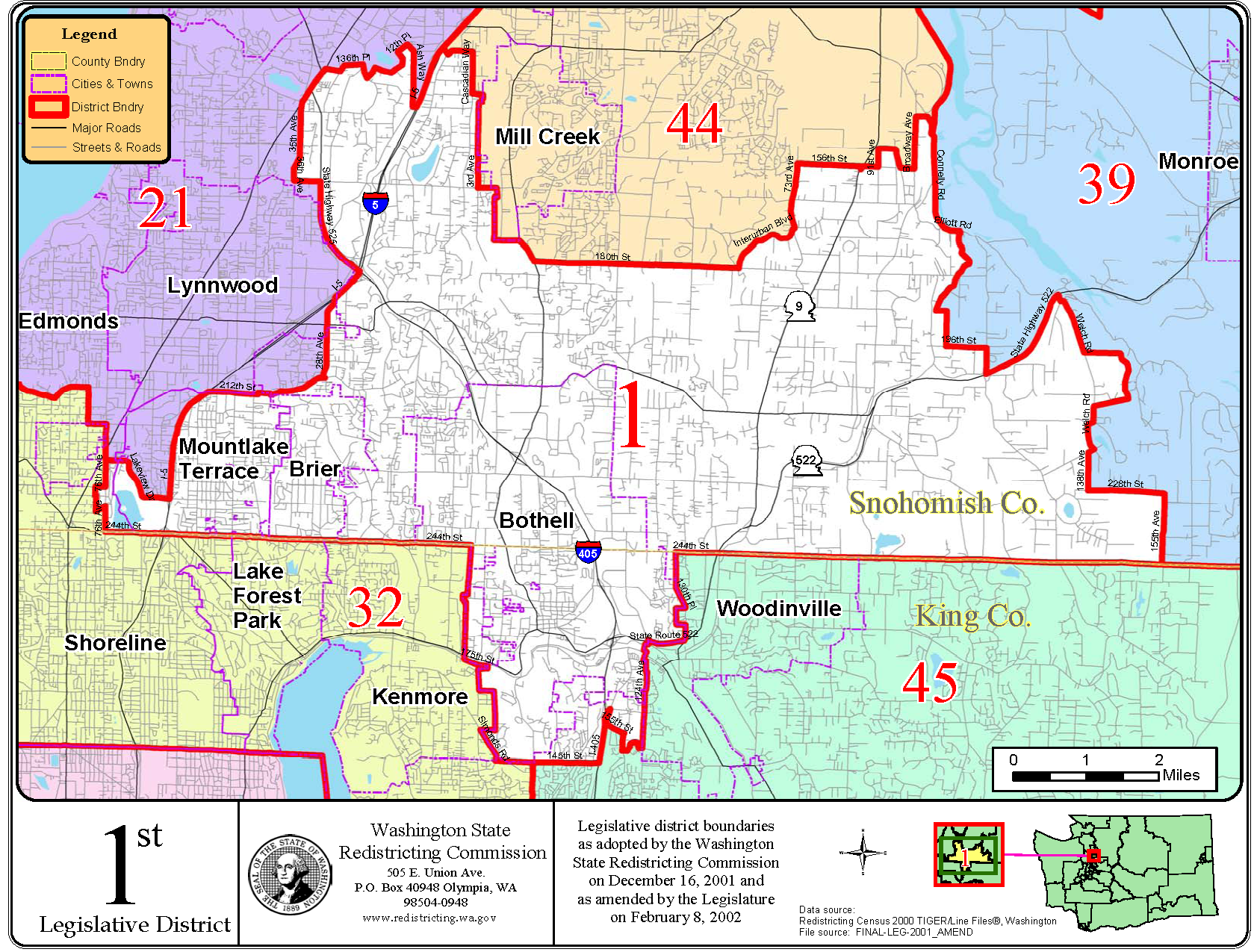 Map of Washington's 1st Legislative District from 2002 to 2012